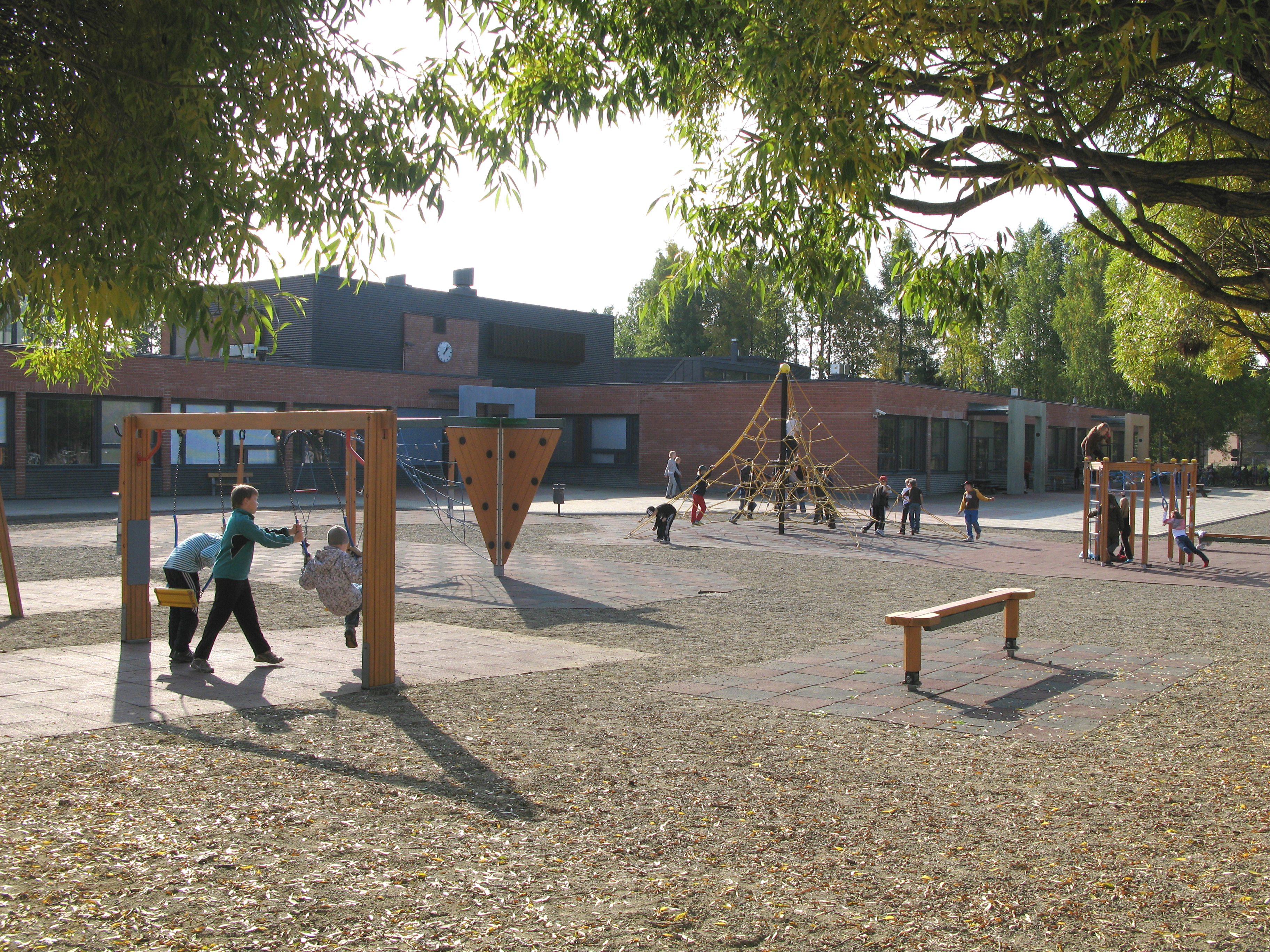 Joensuu university's teachers training school.